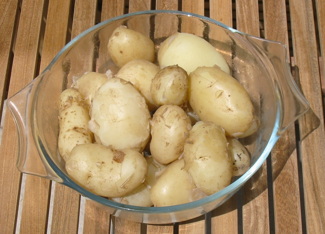 a dish Jersey Royal potatoes - simply boiled